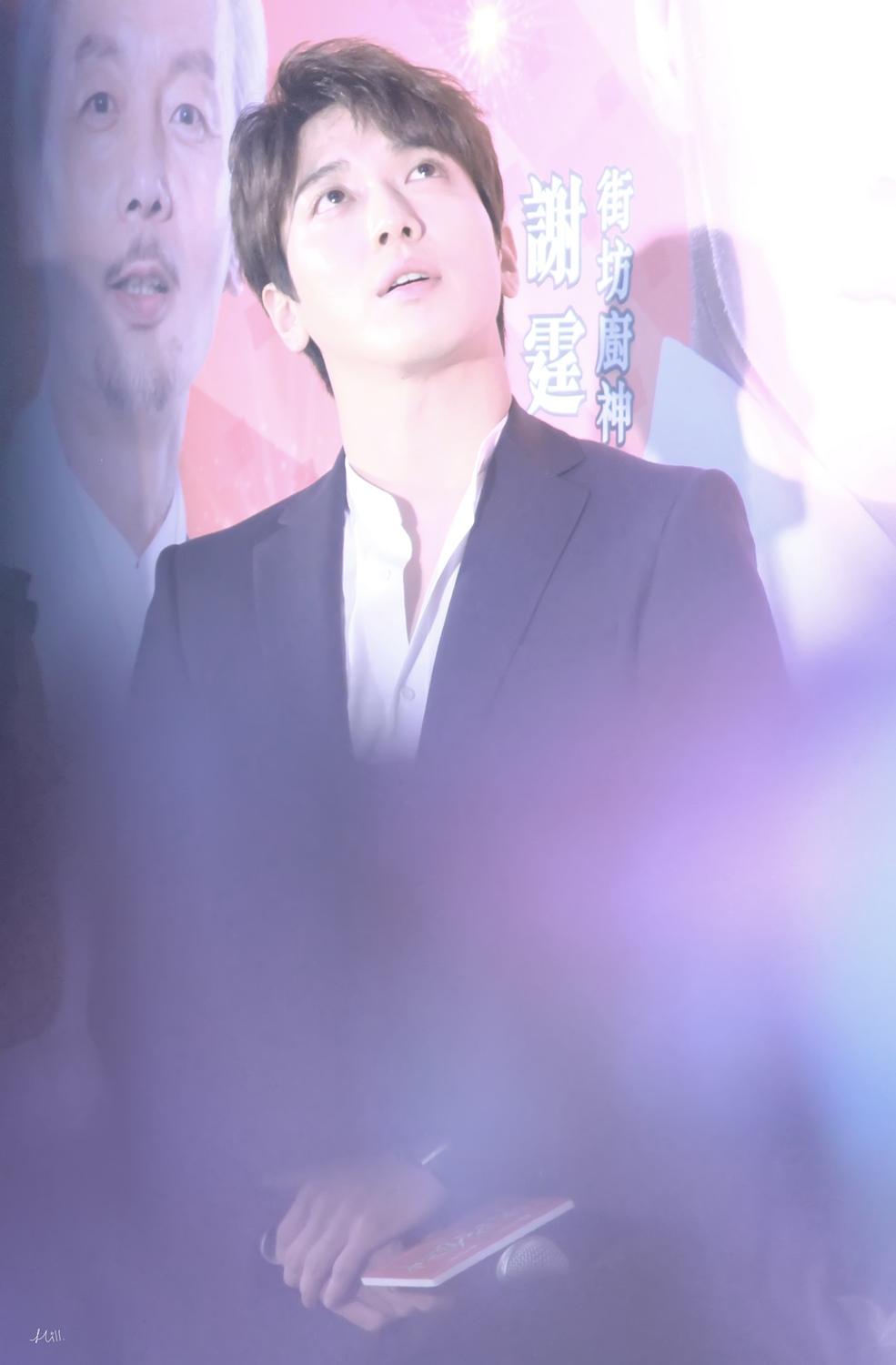 Jung Yong-hwa promoting his first film Cook Up a Storm at Times Square in Hong Kong on January 25, 2017.